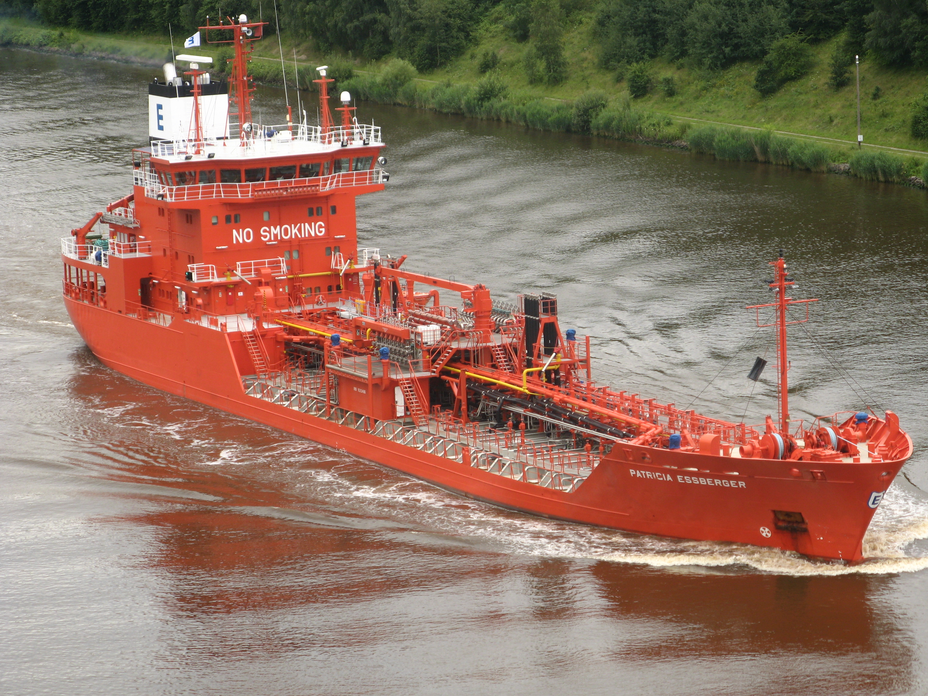 The ice-strengthened chemicals tanker Patricia Essberger on the Nord-Ostsee-Canal. IMO Number: 9212486 MMSI Number: 211636000 Callsign: DALU Length: 100 m Beam: 14 m